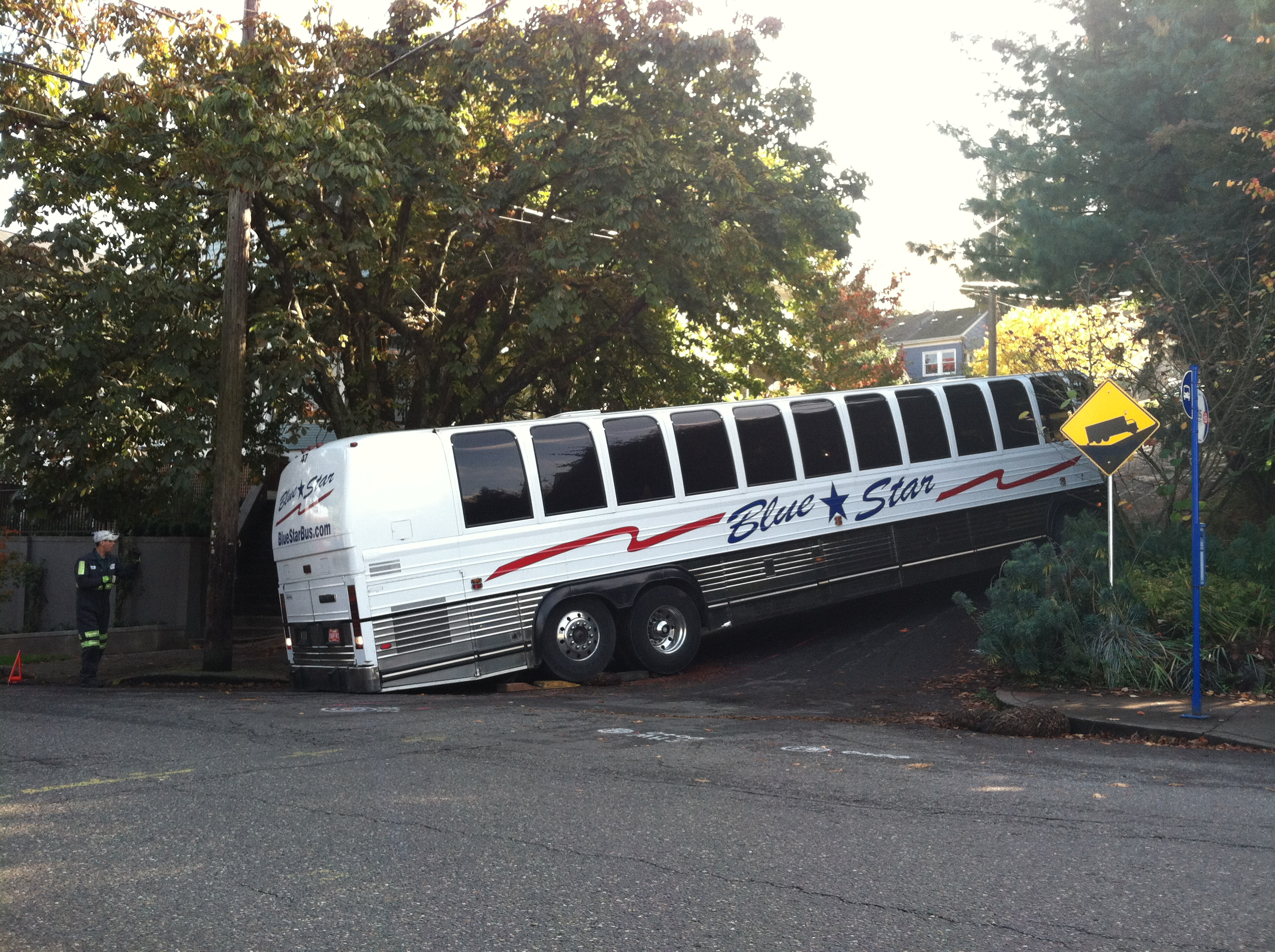 Bus driving fail in northwest